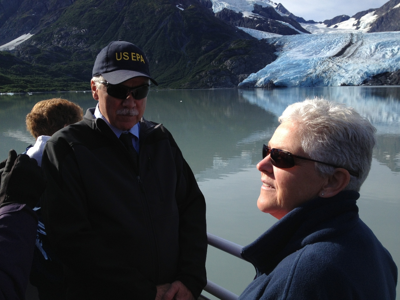 On Monday, August 26 Administrator McCarthy visited the Portage glacier near Anchorage, Alaska to see first-hand some of the impacts of climate change.